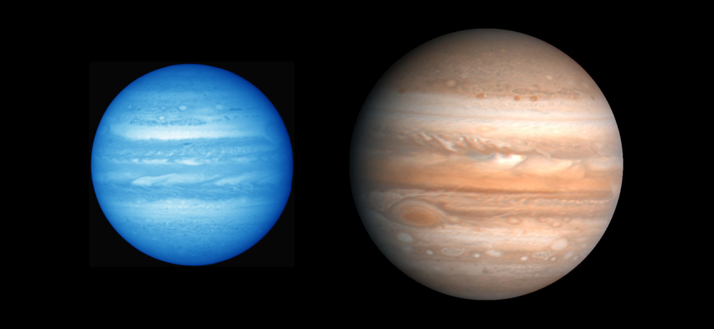 Comparison of the size of the fictional exoplanet Polyphemus from the film Avatar with the Solar System planet Jupiter, based on information reported in Avatar: A Confidential Report on the Biological and Social History of Pandora[1] and assuming a radius of 0.9×RS. ↑ Wilhelm, Maria; Mathison, Dirk (2009) Avatar: A Confidential Report on the Biological and Social History of Pandora, !t Books, p. p. 13 ISBN: 0061-89675-6. " Smaller than Saturn. "